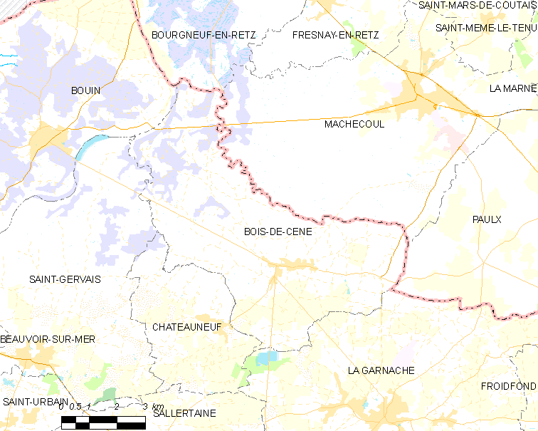 Map of French municipality Bois-de-Céné